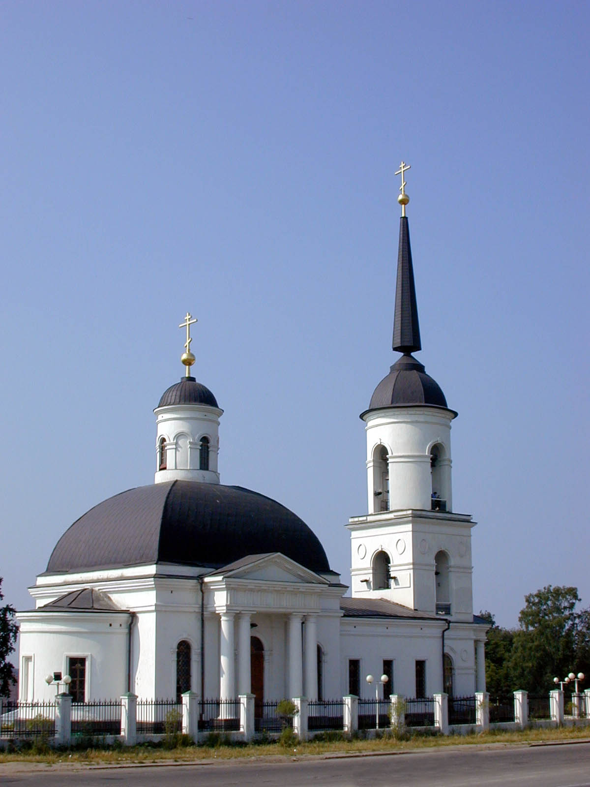 Nativity Church in Cherepovets (built 1789, restored 1990s)